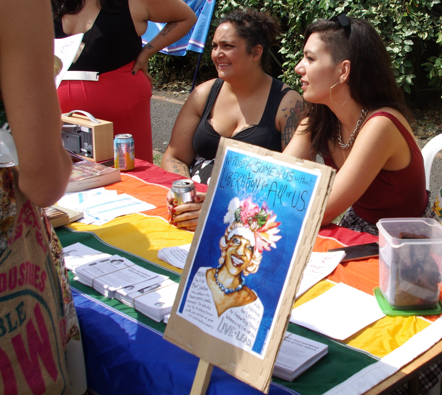 QTIPOC atall at Trans Pride